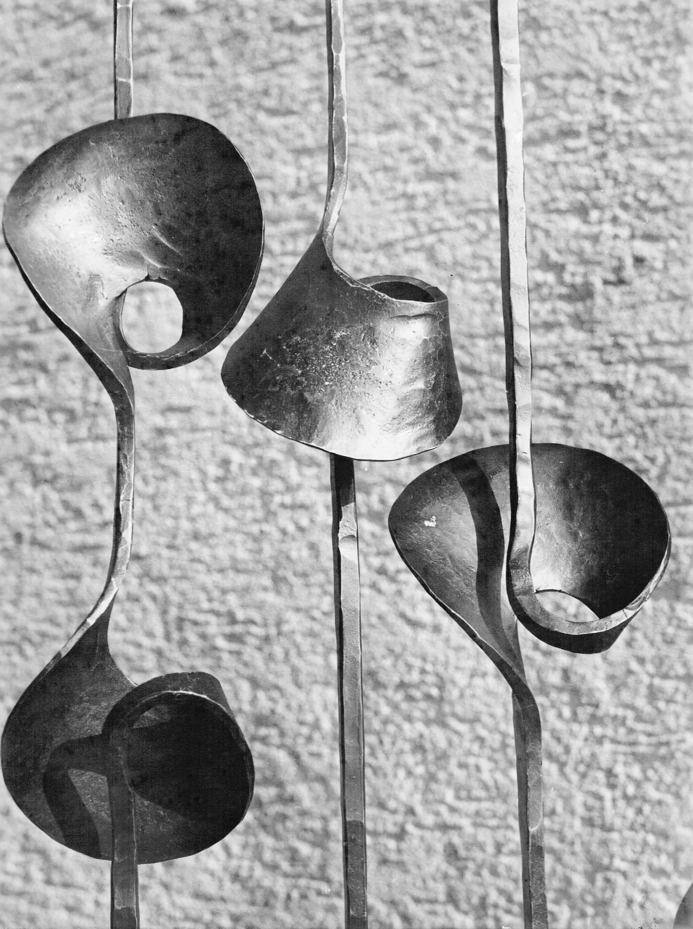 Work made by Paul Zimmermann, year 1975Deitsch: Arbeit kreiert und hergestellt von Paul Zimmermann im Jahr 1975